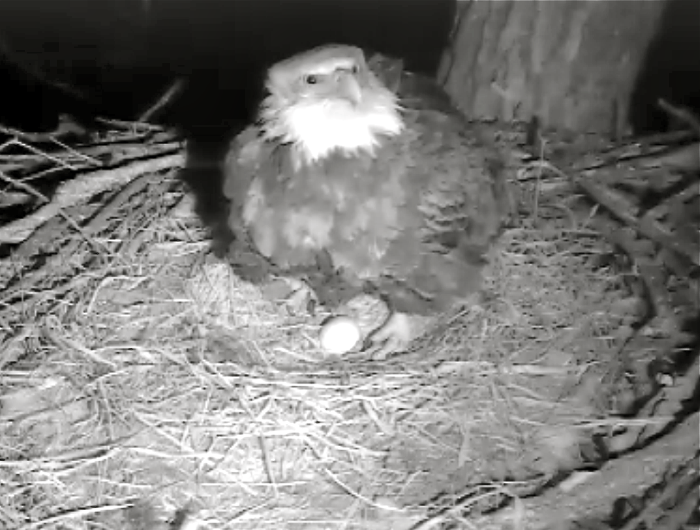 Bald Eagle in Decorah Iowa sits on her first egg of the season; live-streamed by Raptor Resource Project and Ustream.tv